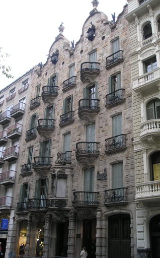 Casa Calvet façade - Barcelona (Catalonia)